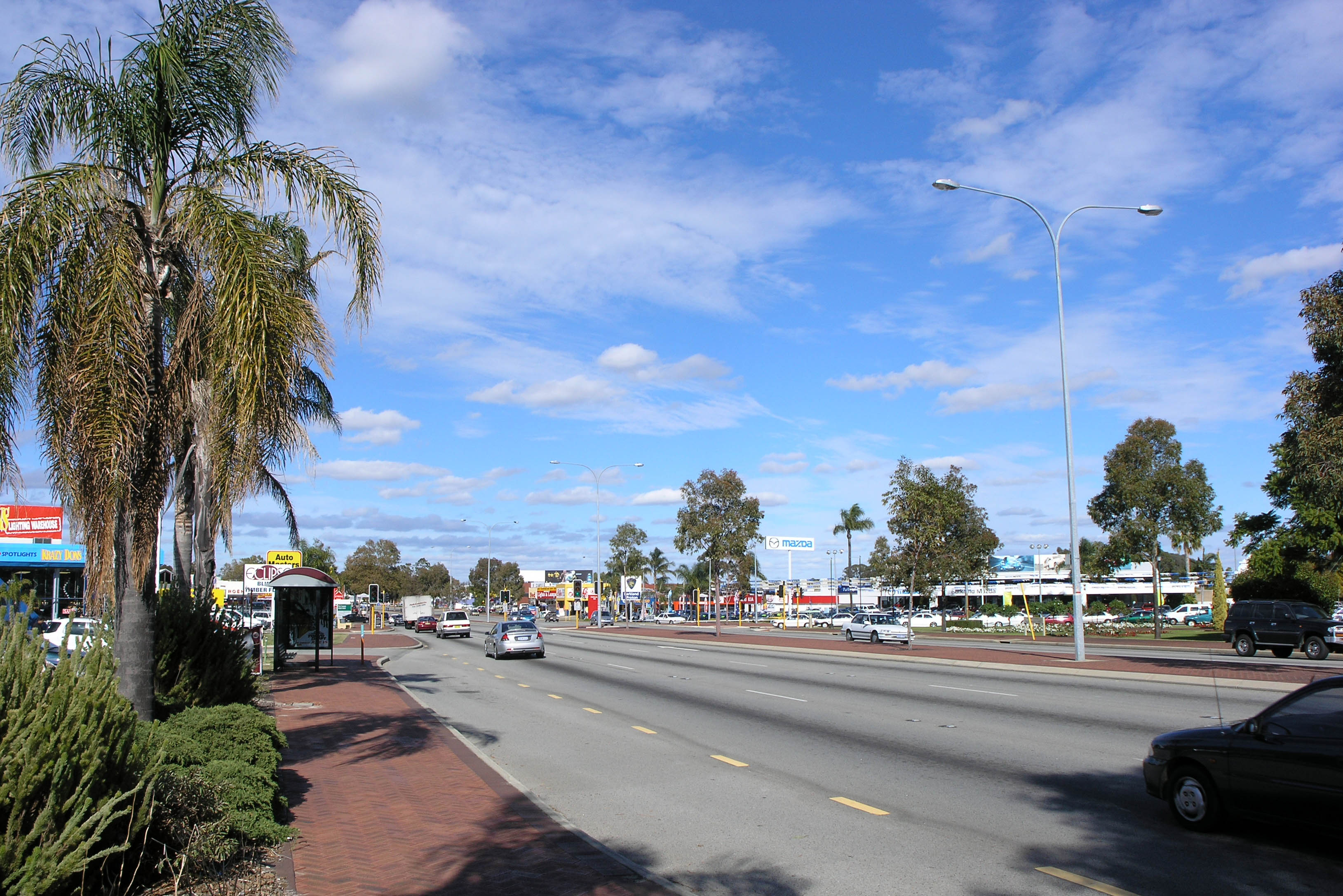 Albany Highway at Cannington, Perth, WA. Taken by me.